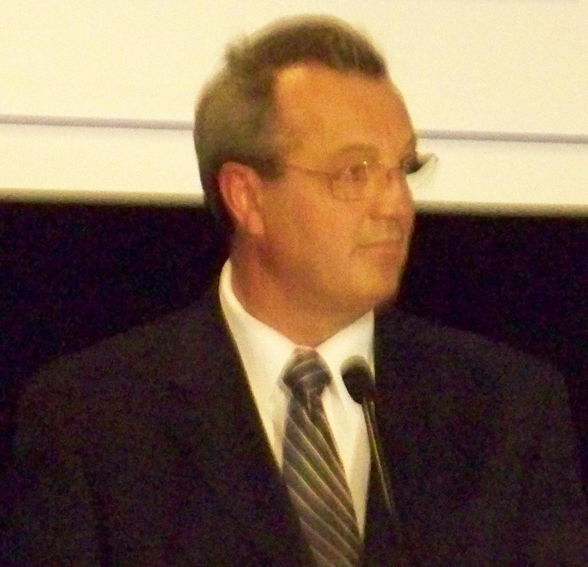 Randy Hillier at the Markham Debate, June 4th, 2009